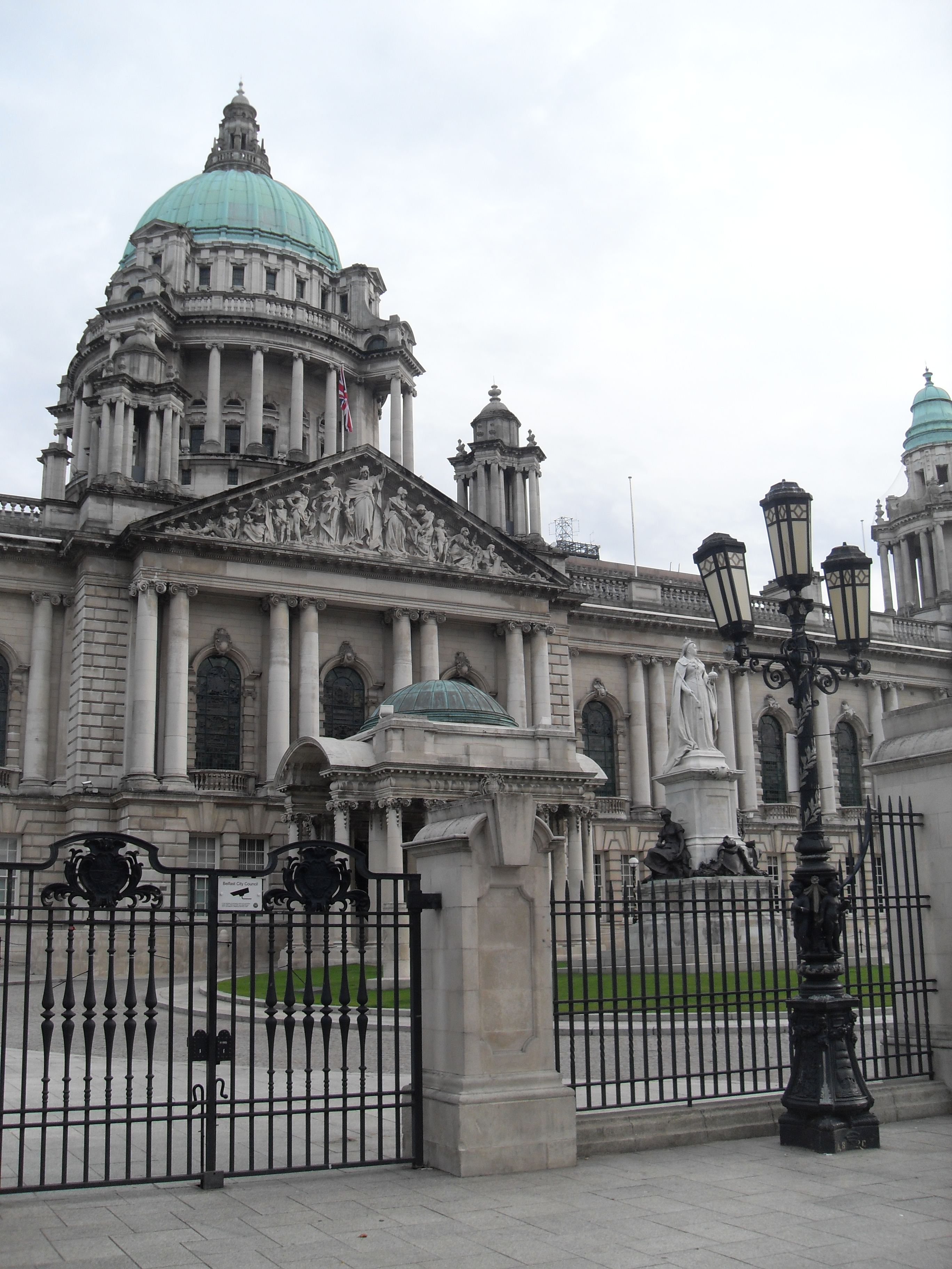 Belfast City Hall